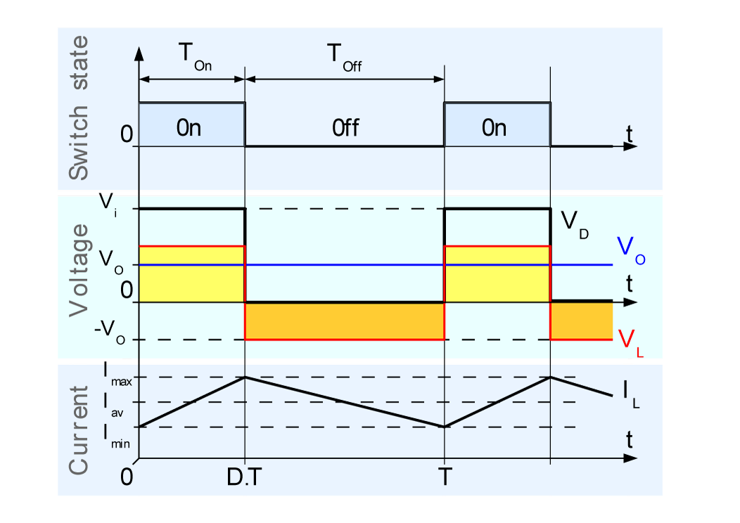 Cyril BUTTAY Evolution of voltage and current with time in a buck converter